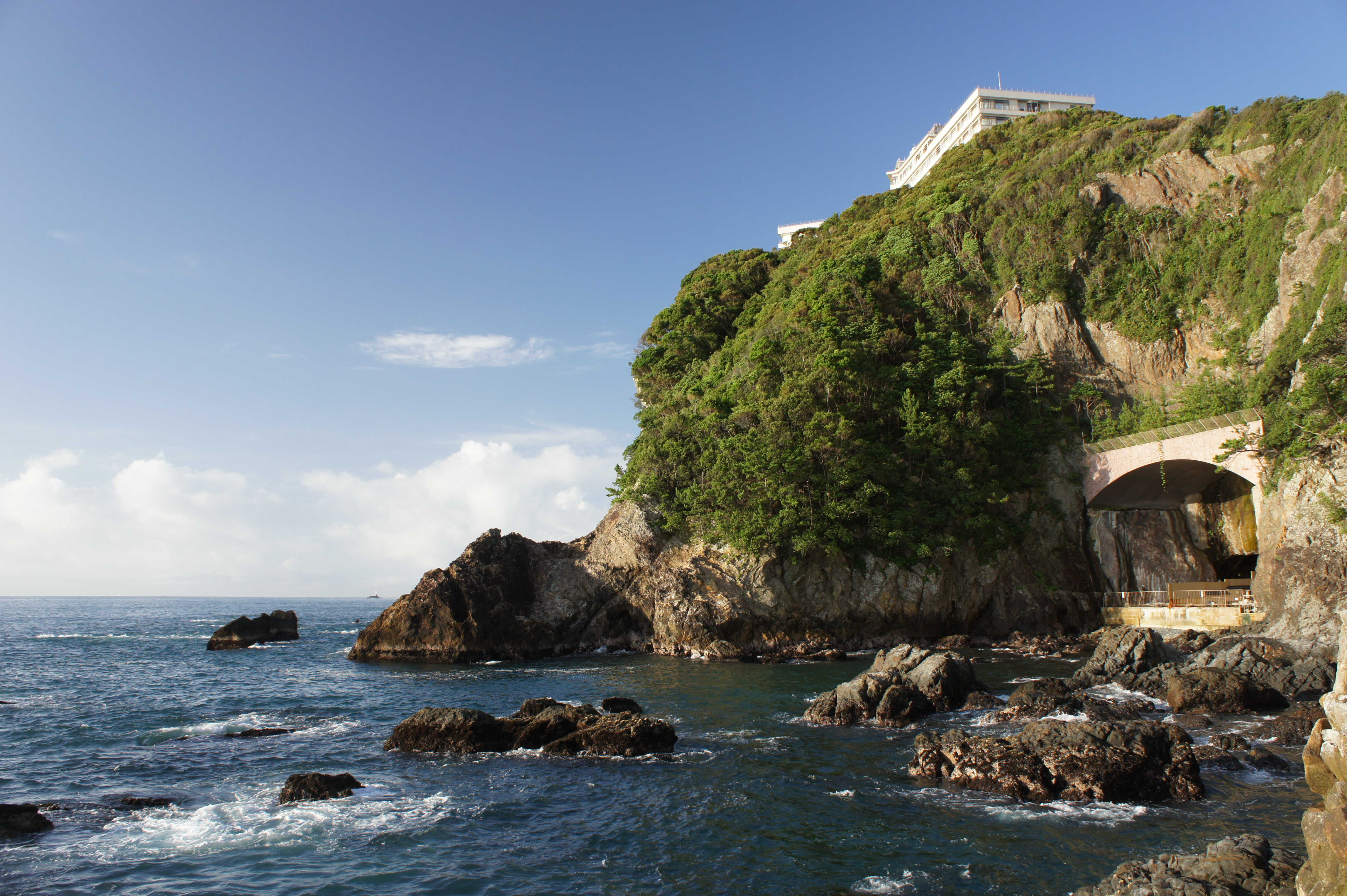 Rotenburo (open air bath) of Hotel Urashima in Nachikatsuura, Wakayama prefecture, Japan. Facing the Pacific Ocean, it is located inside a large natural cave that has been eroded by the sea.